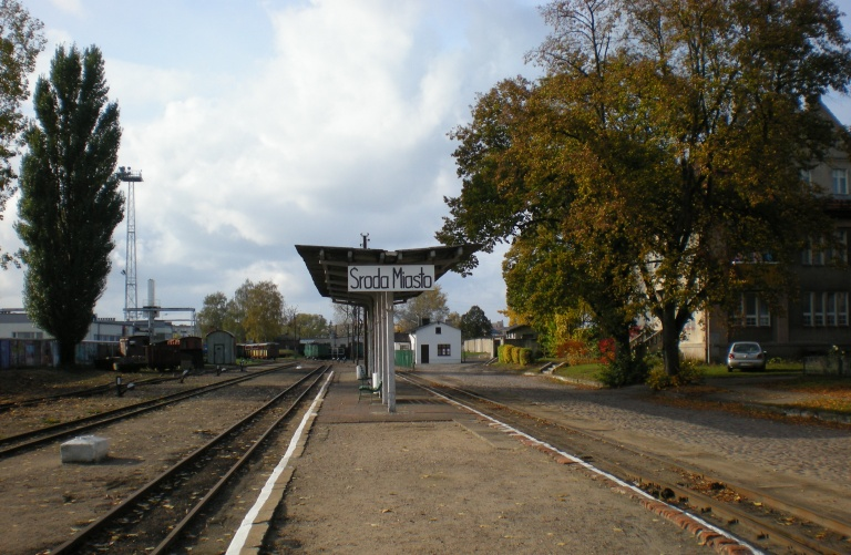 Środa District Railway - Środa Miasto station.